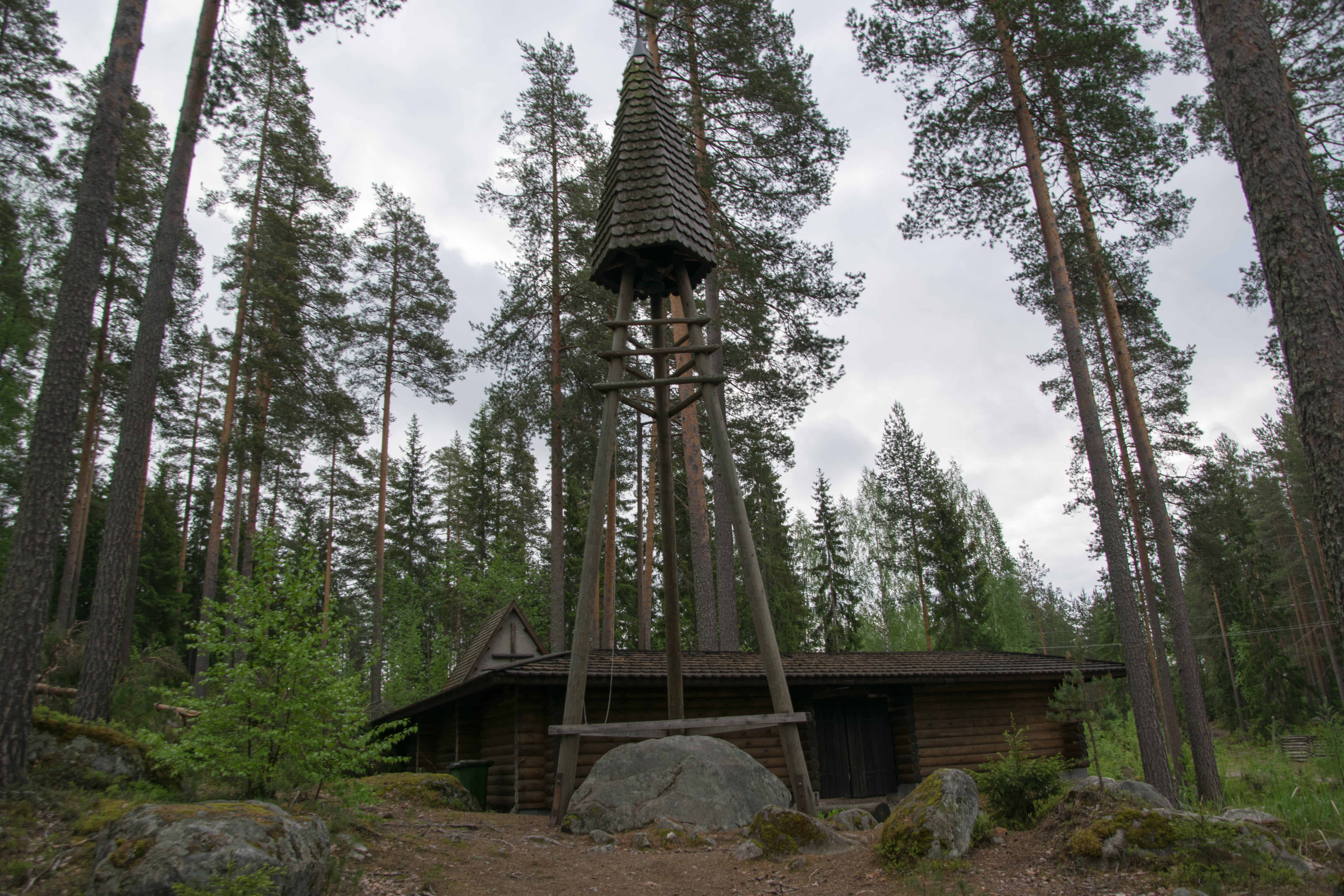 Ristikivi Church is an open air church in Pieksämäki, Finland, designed by Jussi Lappi-Seppälä and completed in 1971.